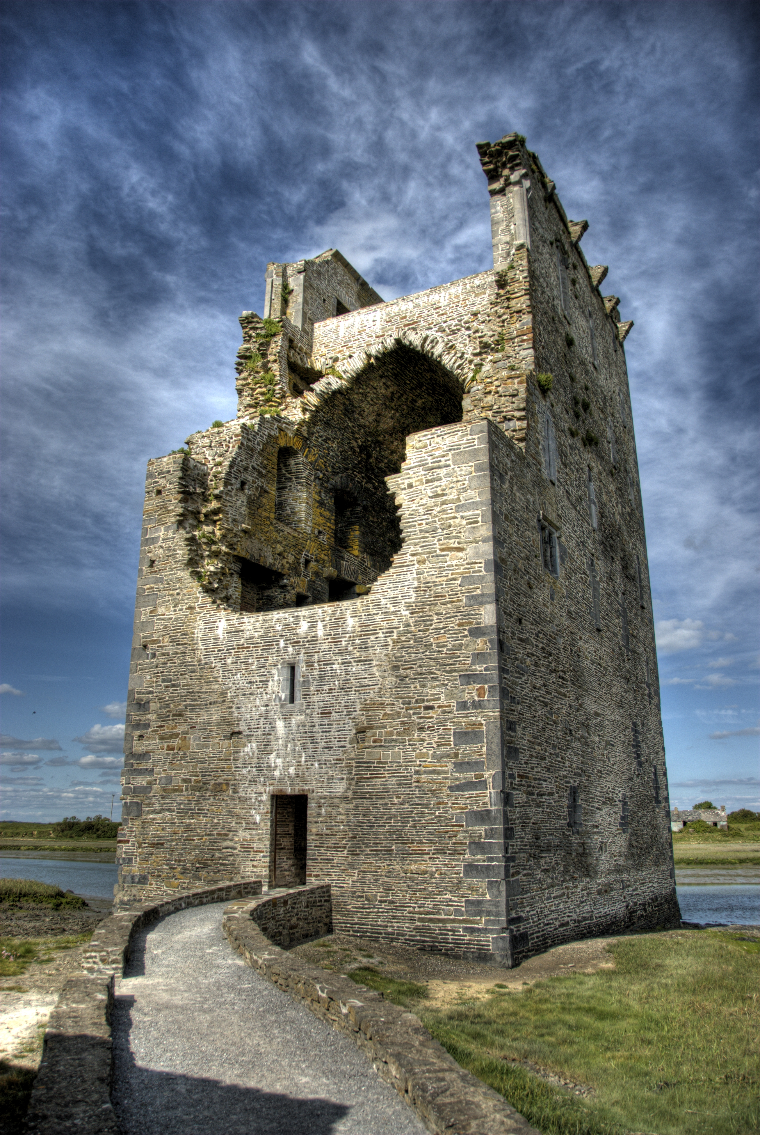 HDR photo of Carrigafoyle Castle, Co. Kerry, Republic of Ireland.